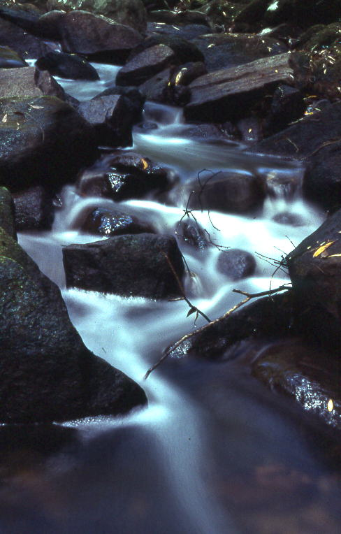 Cascades along Calna Creek, a tributary of Berowra Creek, Sydney